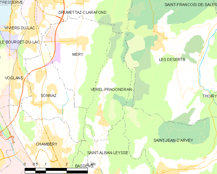 Map of French municipality Verel-Pragondran